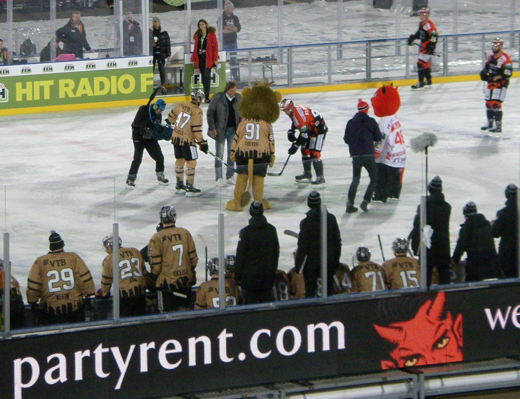 Erich Kühnhackl throws the puck for the kick-off of the Winter-Derby between EC Bad Nauheim and Löwen Frankfurt which was played in Sparda-Bank-Hessen-Stadion, home of Kickers Offenbach, on December 14, 2019.